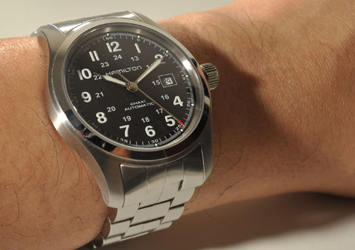 Military-Watch-Hamilton-Khaki-Field-H70515137